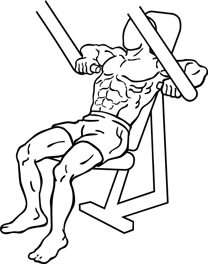 an exercise of chest